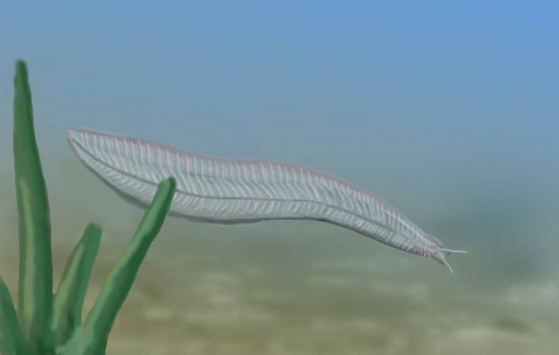 Pikaia gracilens, the earliest known vertebrate ancestor, from the Middle Cambrian of British Columbia, digital